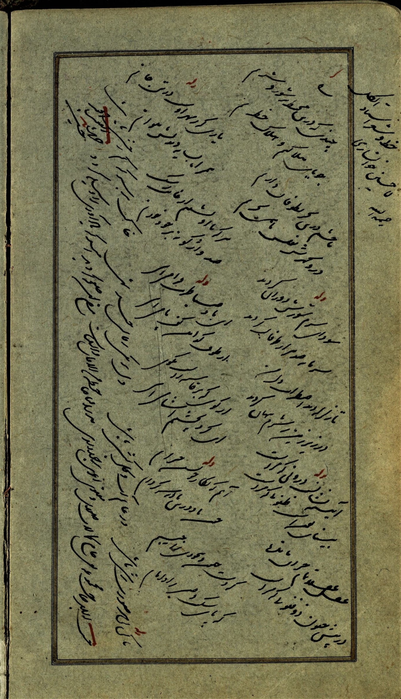 Author: Agha Hosein Khansari- Mohaghegh Khansari- (1607-1688) -(1016-1099 A.H.) Islamic Manuscript by Agha Hosein Khansari- Mohaghegh Khansari in literary collection compiled by Mirza Muhammad Fayaz Sabzevari Central Library and Documentation Center of the University of Tehran Number: 9707, page 146 (back)